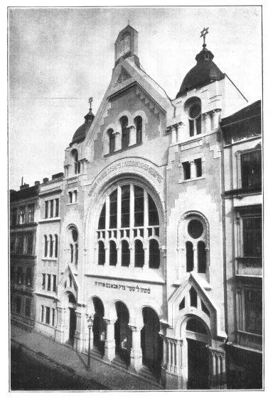 Pazmanitentempel